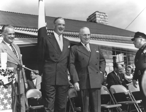 Groundbreaking ceremony for Truman Library Left to right: Robert B. Landry, Senator Stuart Symington, former President Harry S. Truman, Edwin Pauley (seated), and Mike Westwood at the groundbreaking ceremony for the Harry S. Truman Library. The city of Independence donated *Slover Park for the Harry S. Truman Library grounds. From: Copied from original photographs loaned to the library by Harry Barth. Originals were returned to Mr. Barth. Subjects (ARC): Ex-presidents; Friends and associates - Truman, Harry S.; Legislators; Presidential libraries Subjects (HST): Missouri - Cities - Independence - Truman and friends; Slover Park; Truman - Library - Ground *Breaking - HST; Truman - Dignitaries - Senators - Symington, Stuart People: Landry, Robert B. (Robert Broussard), 1909-2000; Pauley, Edwin W. (Edwin Wendell), 1903-1981; Symington, Stuart, 1901-1988; Truman, Harry S., 1884-1972; Westwood, Paul Accession number: 2007-385 Restrictions: Unrestricted Physical Size: 8x10 inches (21x26 cm) Color: Black & White Cropped: no